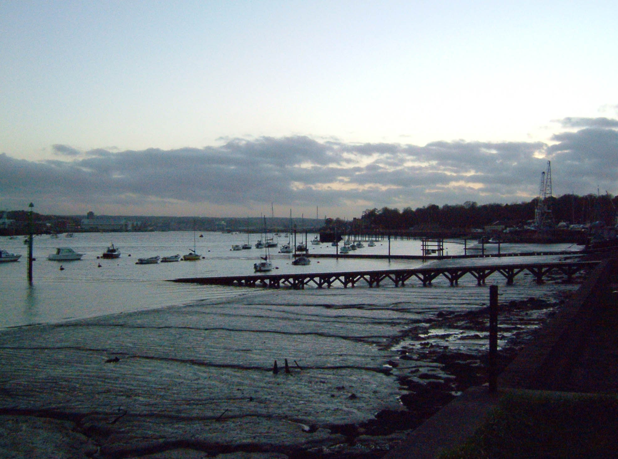 Autumn Dusk from Lower Upnor in front of the London Stones, vista of mud and yachts, on the left bank is Chatham Dockyard, on the right the Royal Engineers Hard, with Upnor Castle on the treeline. A study of a tidal river at low tide.